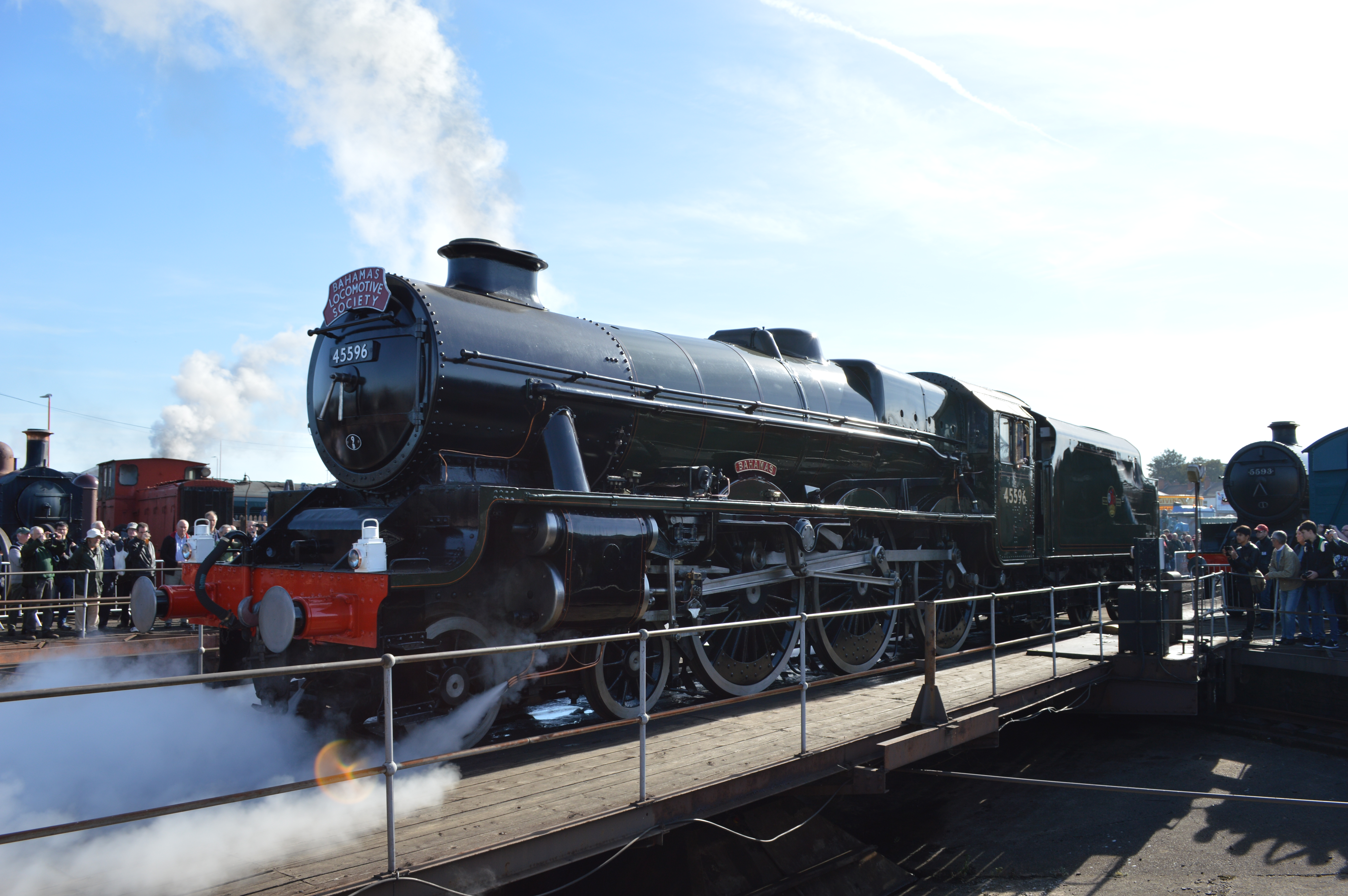 The newly overhauled and returned to service jubilee no 45596 Bahamas reversing off the turntable at Tyseley Locomotive Works to be parked up next to elder sibling no 5593 Kolhapur. The event in question was the Tyseley at 50 open weekend on Sat 29th Sept 2018.